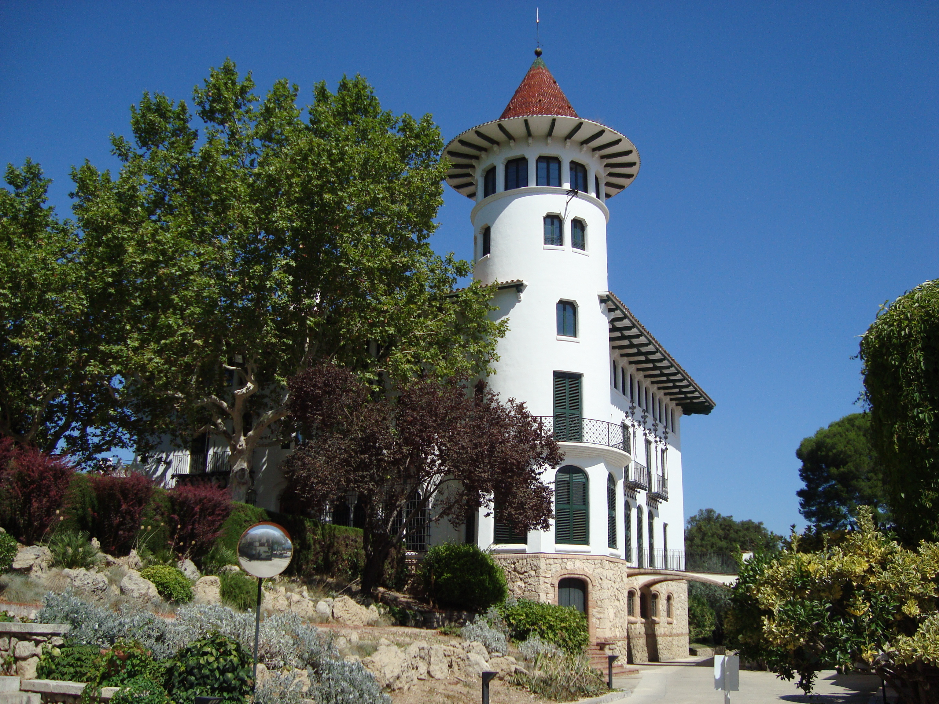 Sant Sadurní d'Anoia (Spain), Main Chateau, by Josep Puig i Cadafalch.